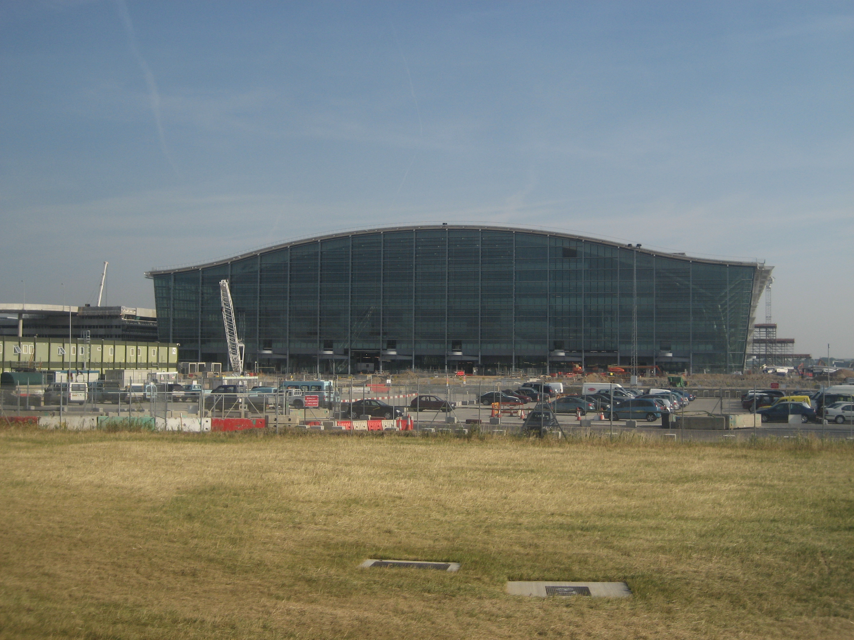 Taken on July 1, 2006. View of the south side of the new terminal 5, due to open in March 2008.